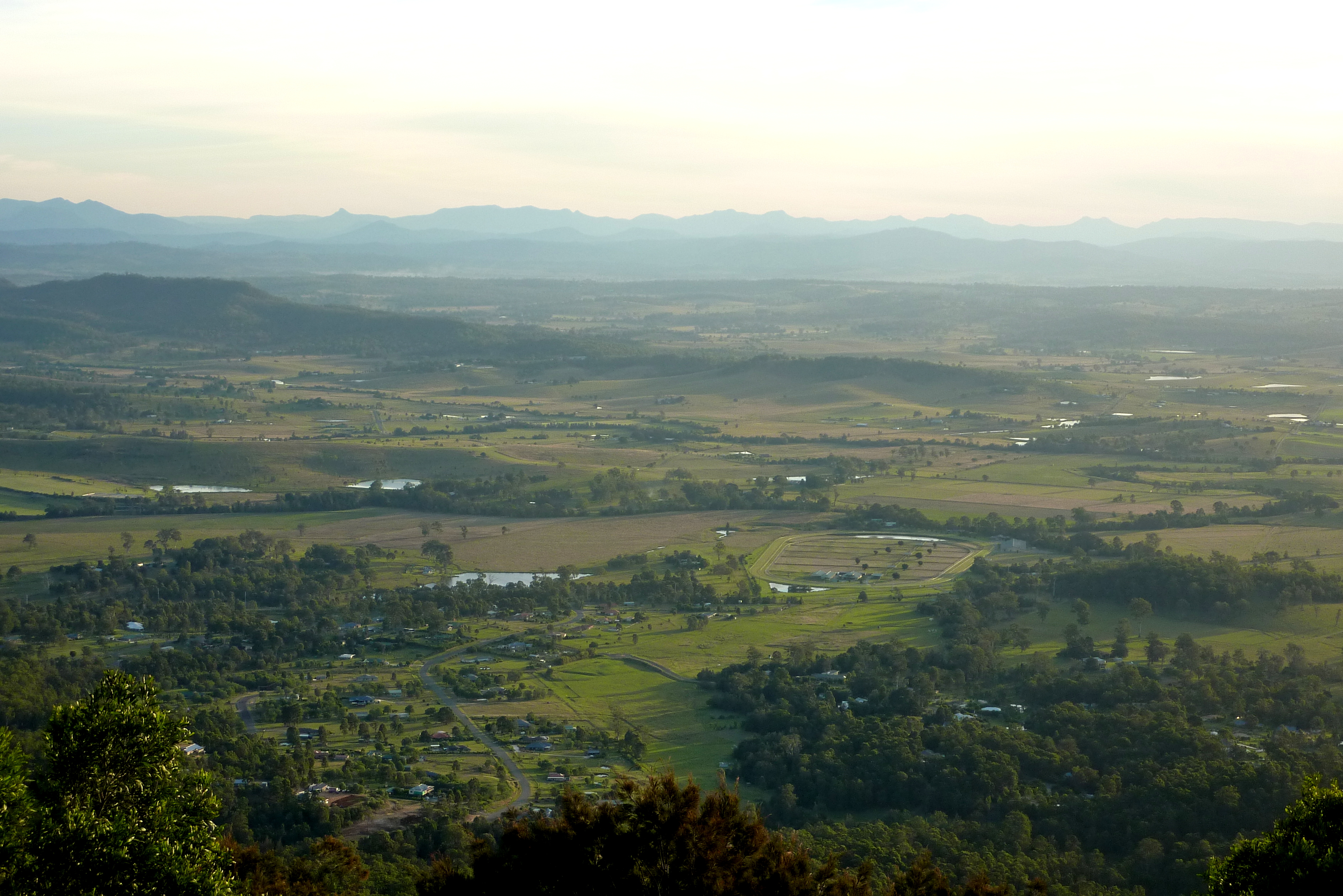 Tamborine mountains